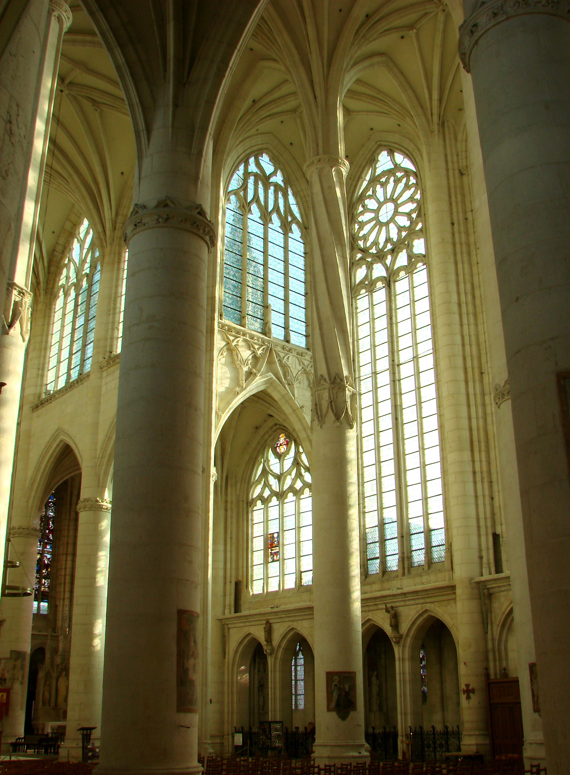 Saint-Nicholas basilica, Saint-Nicolas-de-Port, Meurthe-et-Moselle, Lorraine, France. 16th century.